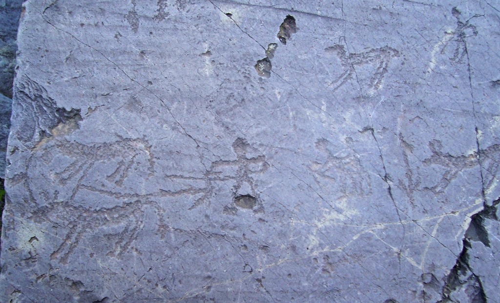 Ploughing scene and ierogamy. R. 12, Parco di Seradina e Bedolina. Capo di Ponte, Val Camonica